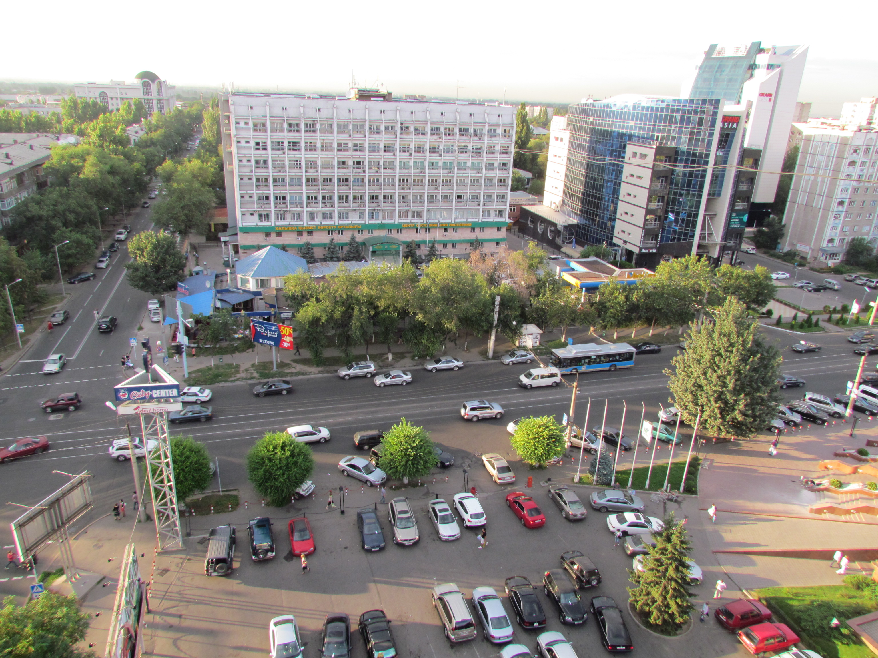 Tole bi street in Almaty